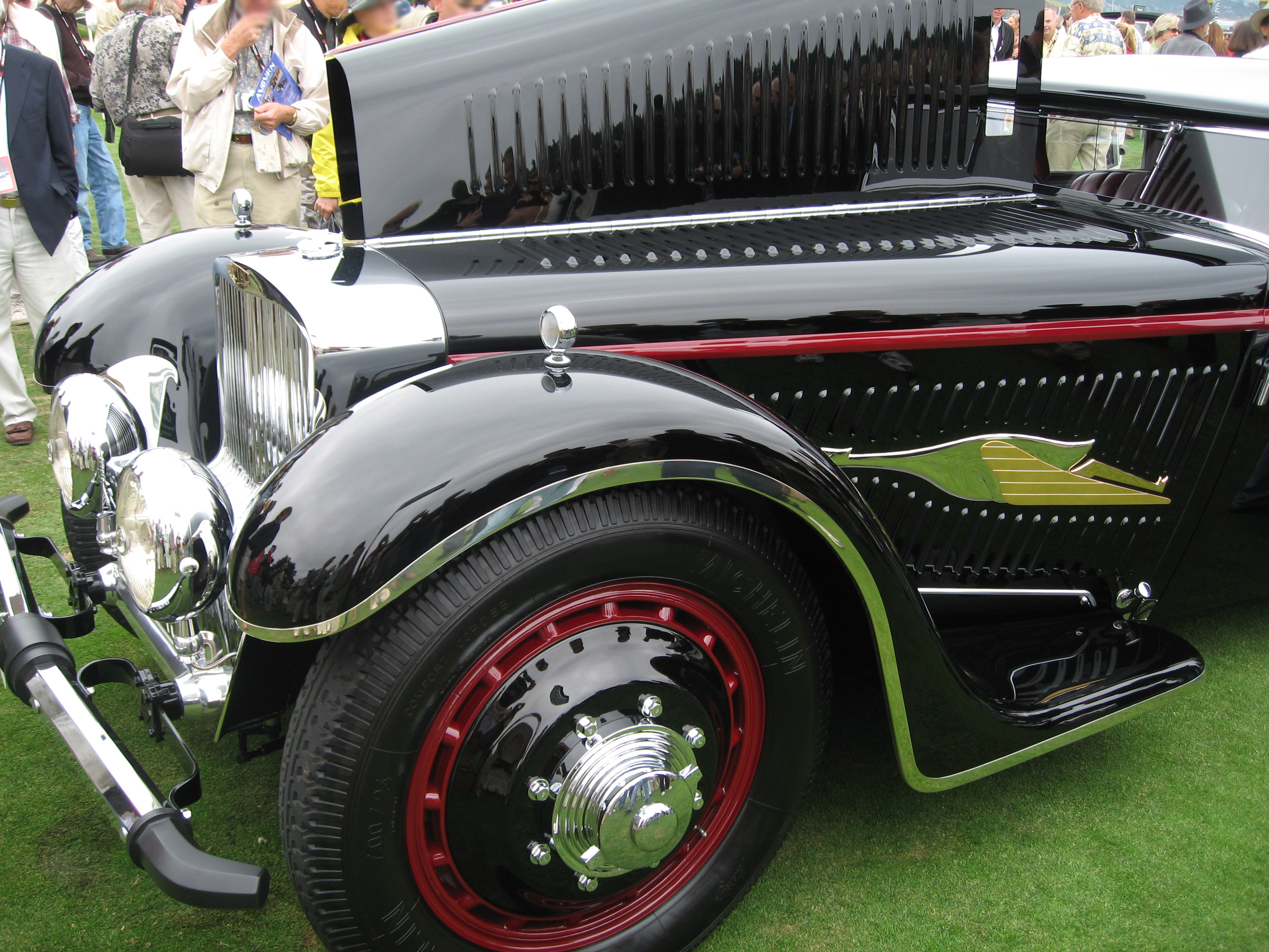 1932 Bucciali TAV8-32 by Saoutchick at the 2006 Pebble Beach Concours d'Elegance